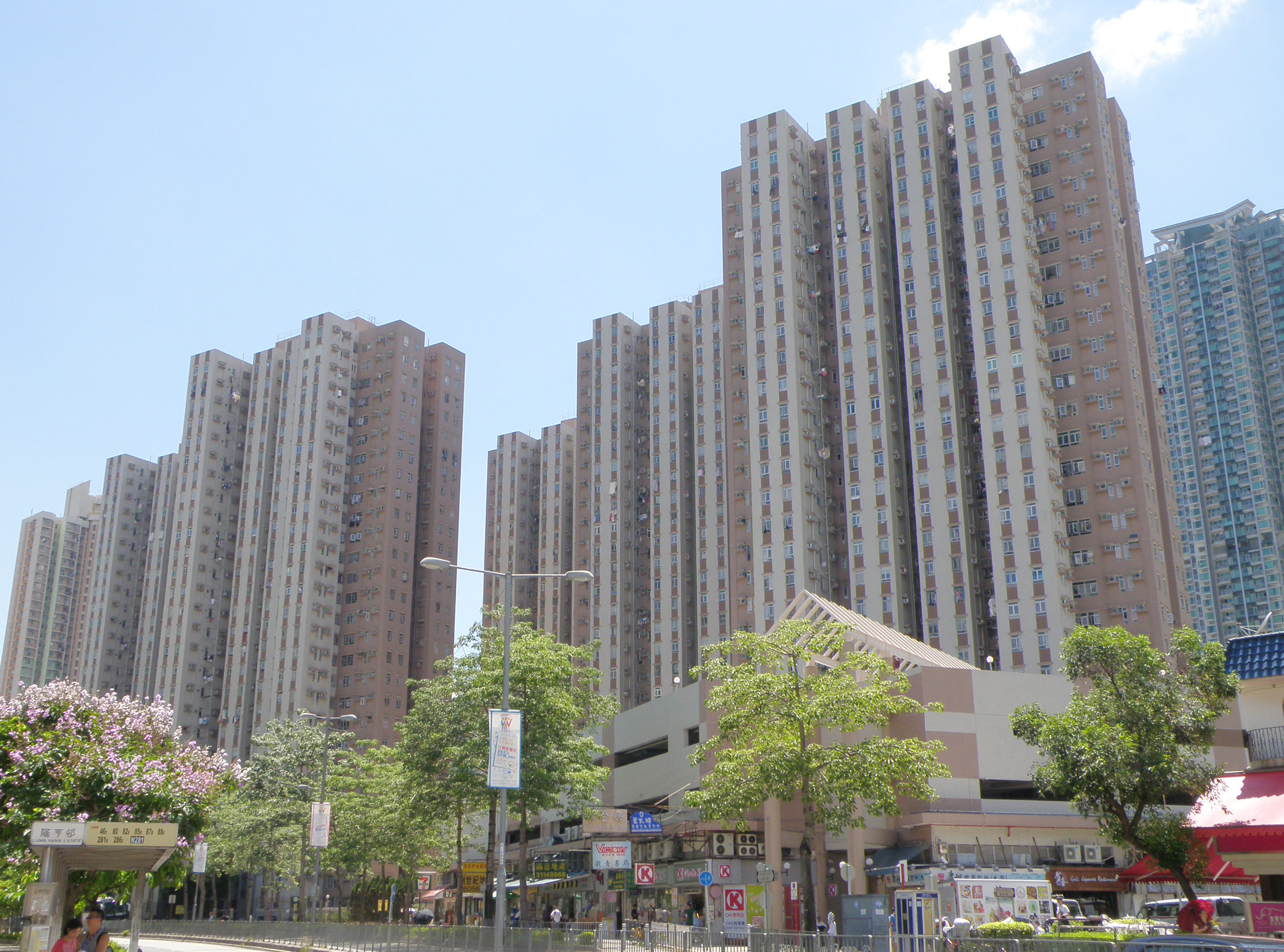 Carado Garden in Tai Wai, Hong Kong.